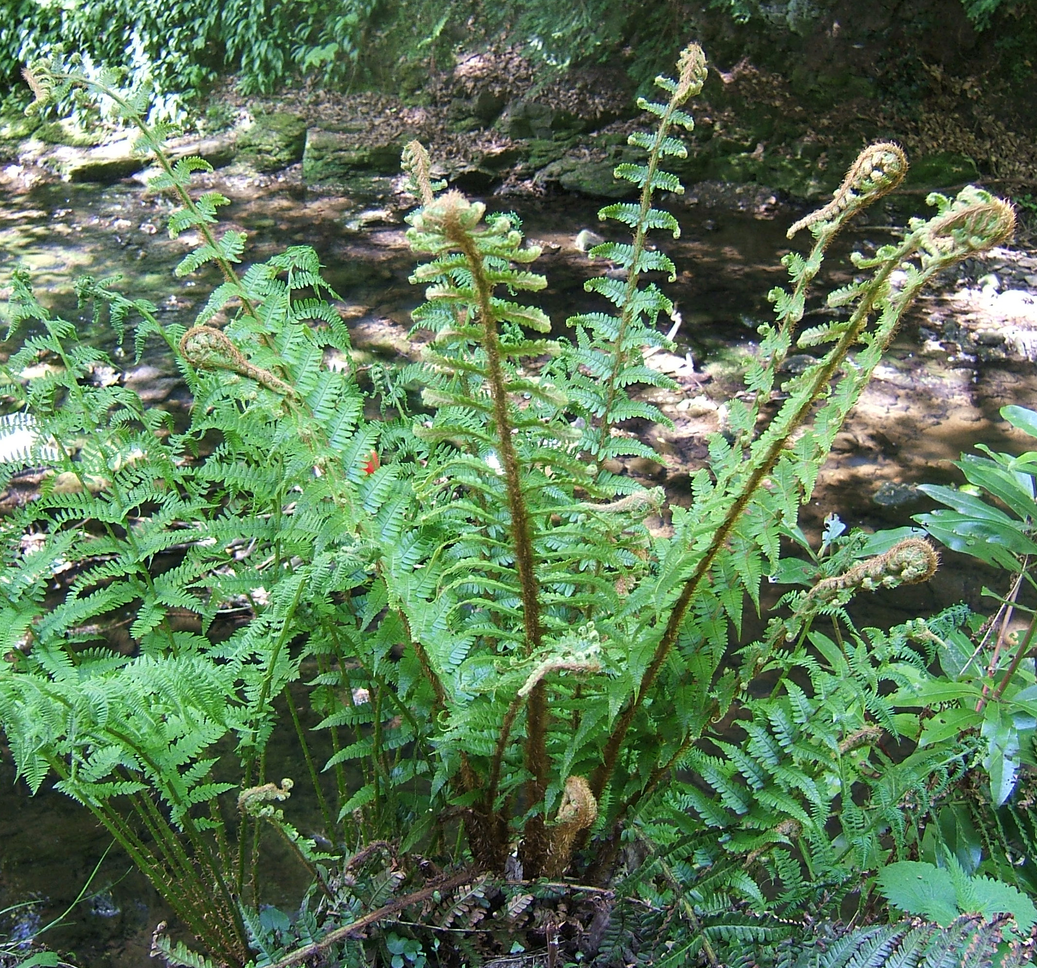 Dryopteris affinis young fronds; compare smaller Dryopteris filix-mas plant to left. Jesmond Dene, Newcastle, Northumberland, UK; 11 May 2006